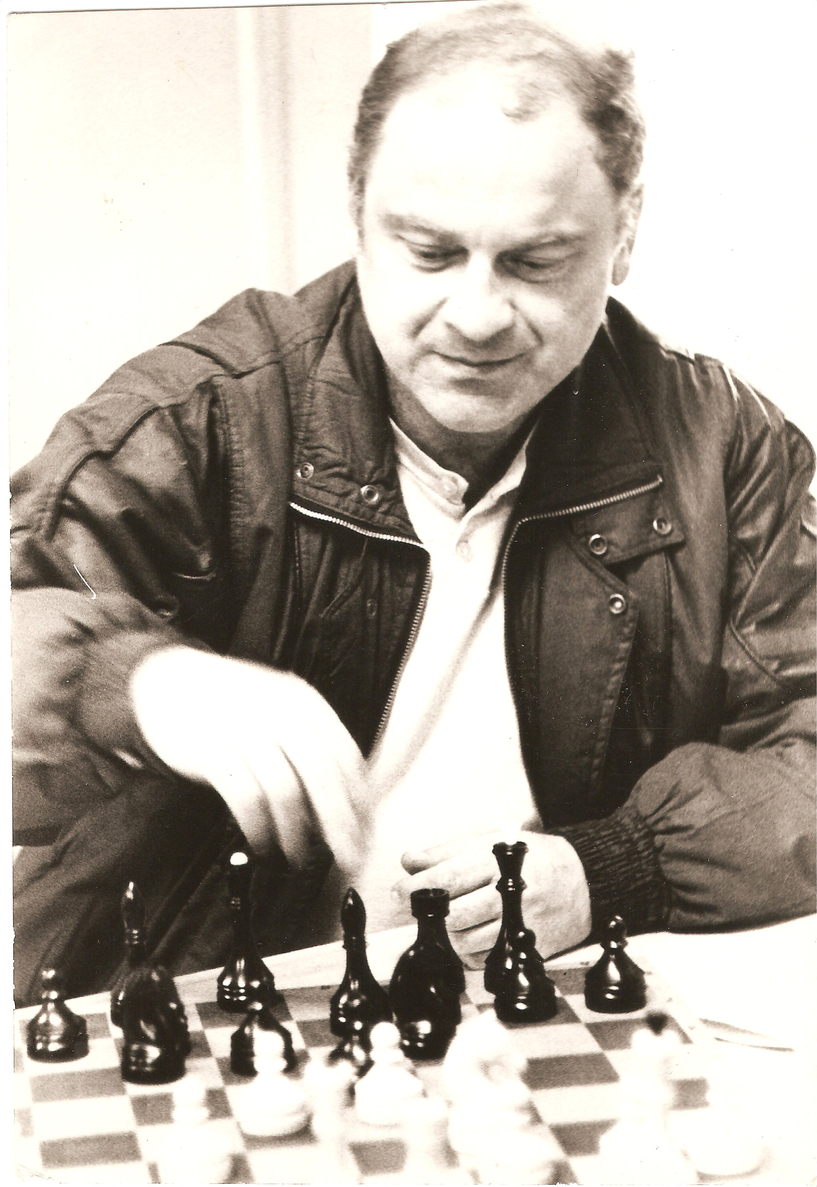 Mikhail Umanskiy, 1995 at Pjatigorsk